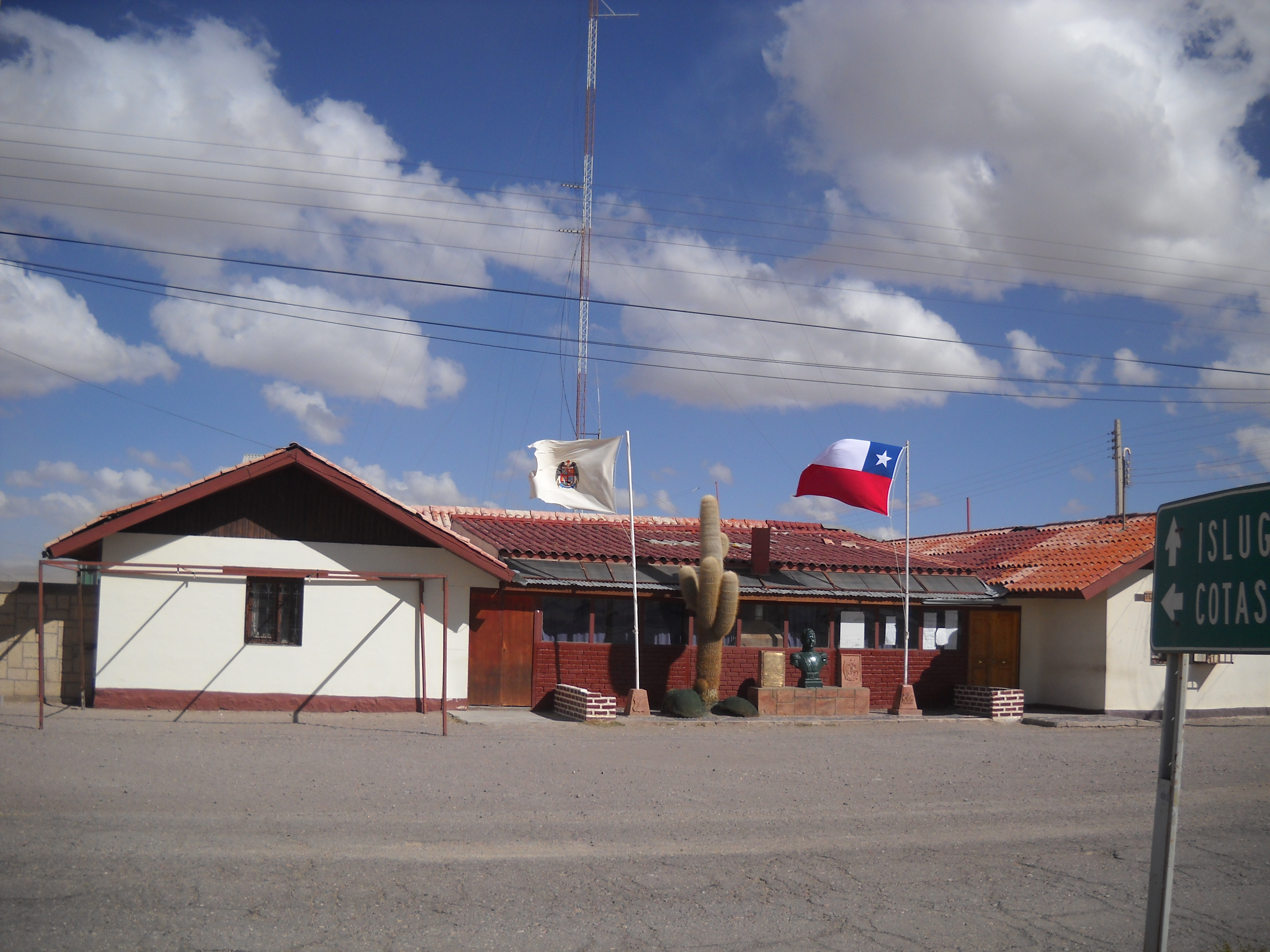 Municipalidad de la comuna de Colchane, provincia del Tamarugal, región de Tarapacá, Chile